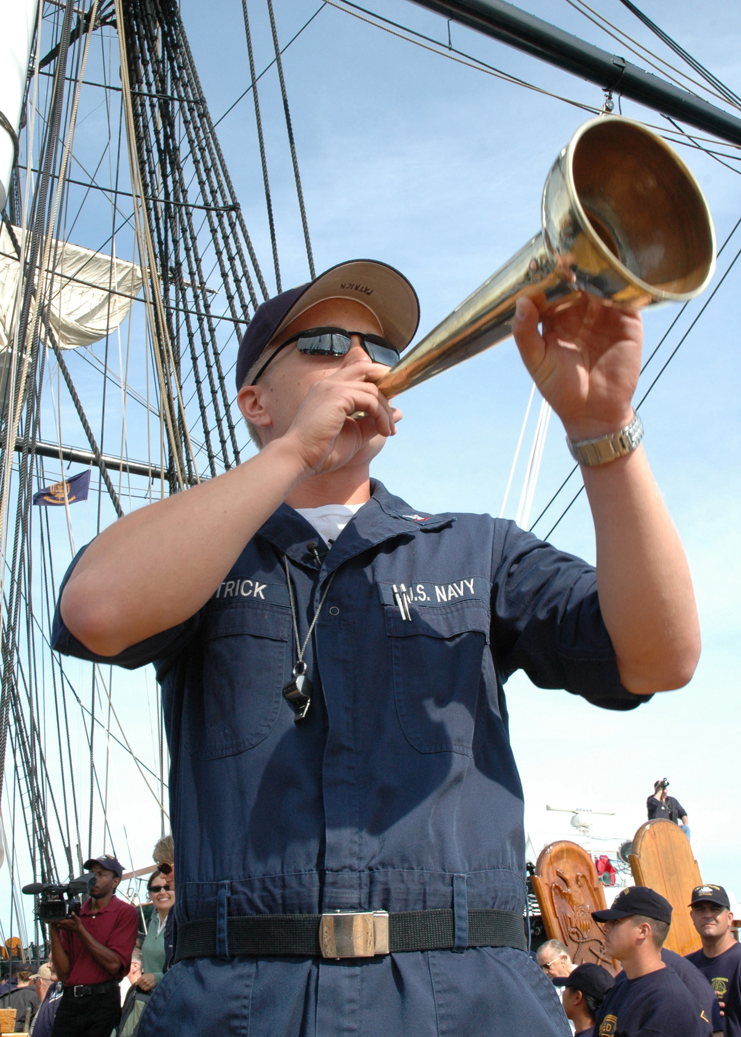 Boston (Sep. 1, 2006) – Boatswain’s Mate 3rd Class Timothy Patrick, USS Constitution's Sailing Master, shouts sail commands to approximately 150 Chief Petty Officer selectees during the second CPO selectee turnaround cruise. Patrick utilized a traditional brass speaking horn to pass the word during the evolution. Each year, Constitution hosts approximately 300 CPO selectees for training, which includes sail handling, gun drill training and community outreach designed to enhance leadership and teamwork skills. U.S. Navy photo by Mass Communication Specialist Seaman Michelle Sowers (RELEASED)